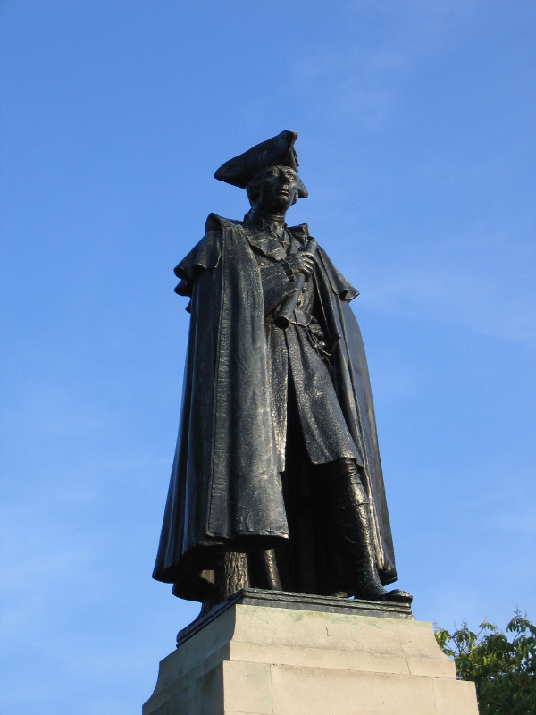 The statue of General James Wolfe by Robert Tait McKenzie (1927) in Greenwich Park in London. Photo taken by User:Abelson in June 2006.